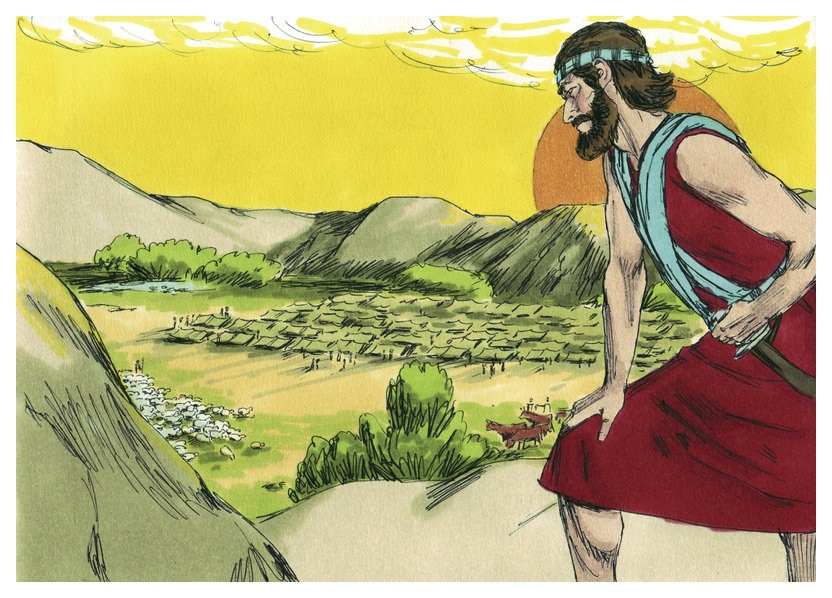 Biblical illustration of Book of Joshua Chapter 1